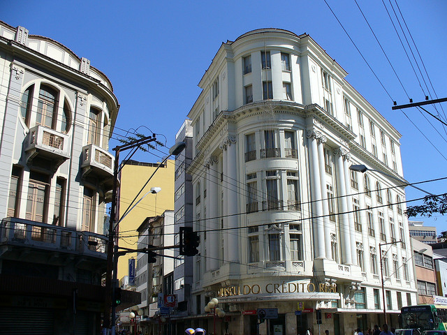 Museu do Crédito Real, former Banco de Crédito Real de Minas Gerais, Juiz de Fora, Brazil.